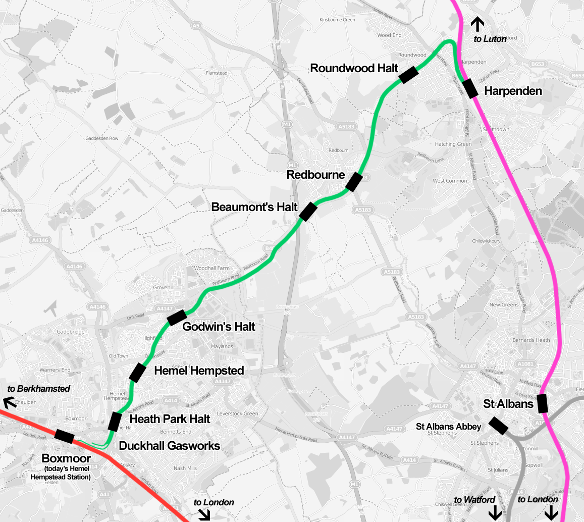 An outline map of the "Nicky Line" railway in Hertfordshire, England, UK which closed in 1959 This map may be incomplete, and may contain errors. Don't rely solely on it for navigation.